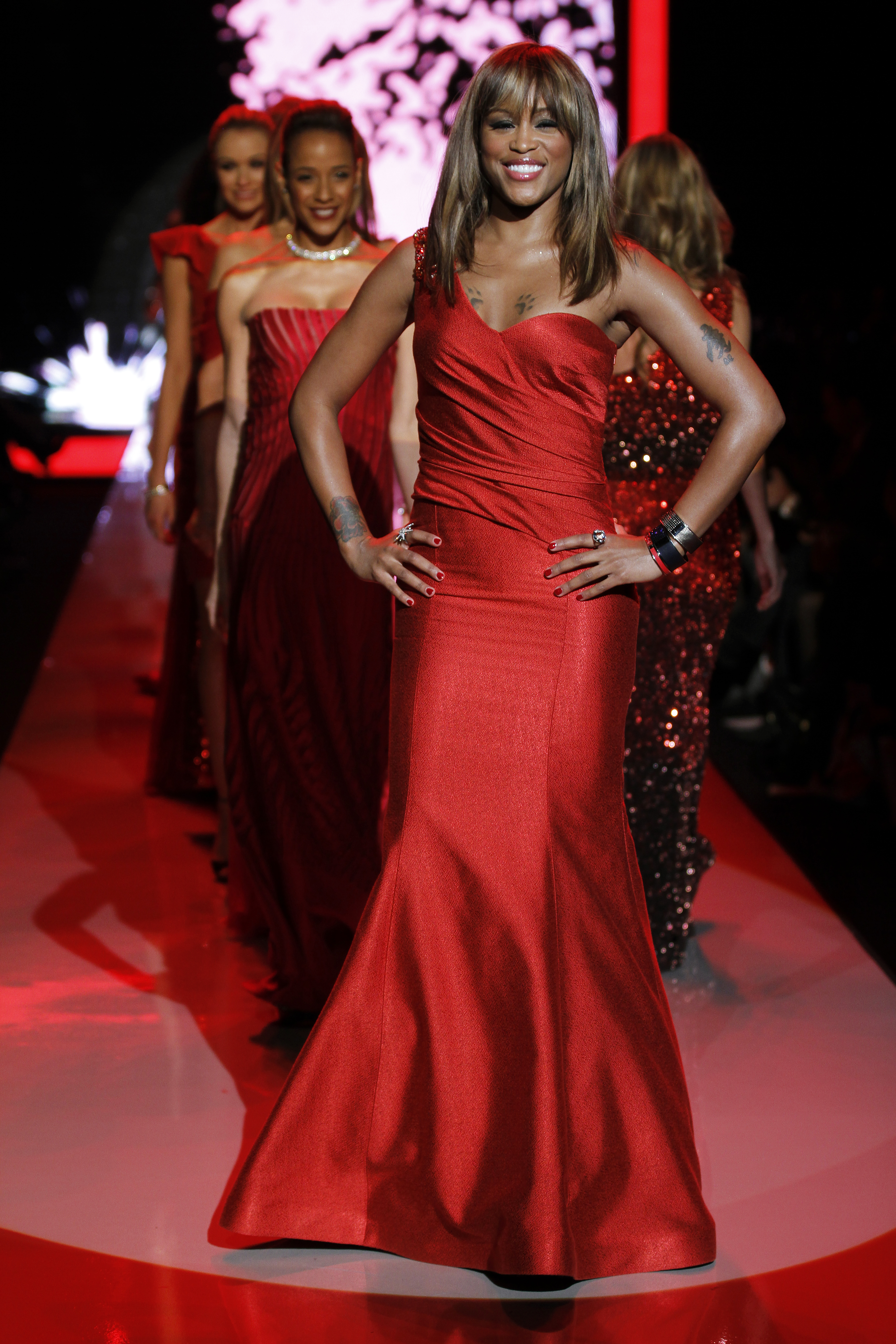 Making its debut at the Lincoln Center venue, The Heart Truth’s Red Dress Collection Fashion Show unveiled its 2011 collection of red dresses designed to celebrate the Red Dress as the national symbol for women and heart disease awareness. More than 20 of today’s top celebrities walked the runway in red dresses by America’s top designers to inspire women to take action to protect their heart health. The Heart Truth® is a national awareness campaign for women about heart disease sponsored by the National Heart, Lung, and Blood Institute (NHLBI), part of the National Institutes of Health, U.S. Department of Health and Human Services (HHS). ® The Heart Truth, its logo and The Red Dress are registered trademarks of HHS. Participation by Mercedes-Benz Fashion Week, Diet Coke, Swarovski, AOL, and Bobbi Brown does not imply endorsement by HHS.